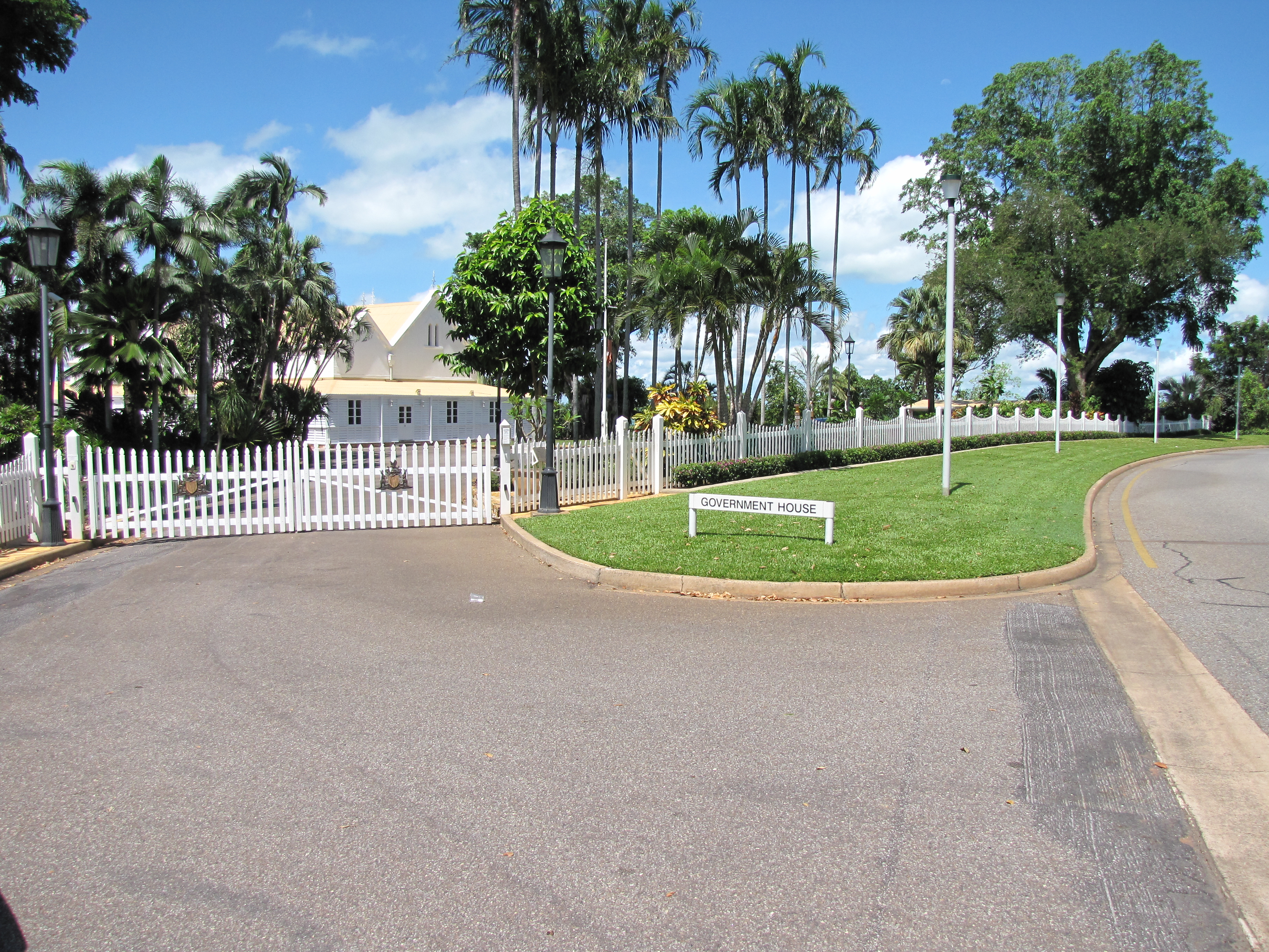 The entrance to the official residence of the Administrator of the Northern Territory. Also known as the House of the Seven Gables this official building has grown through many extensions since the 1860s. A recent tender process has been announced for the upgrade of the perimeter fences. This will possibly change the present low fences to a post 911 high security fence.